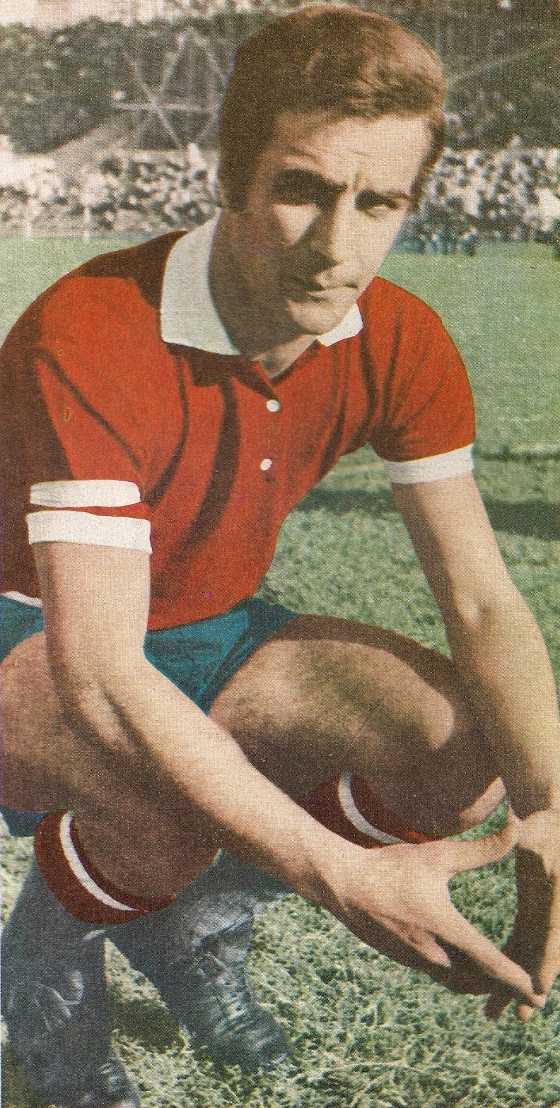 José Omar Pastoriza, former midfielder of Club Atlético Independiente.